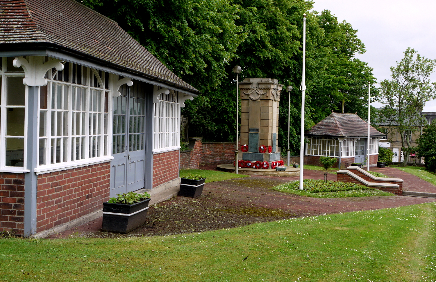 War Memorial Garden, Birtley, near to Birtley, Gateshead, Great Britain. A well tended war memorial garden in Birtley which is now part of Gateshead.